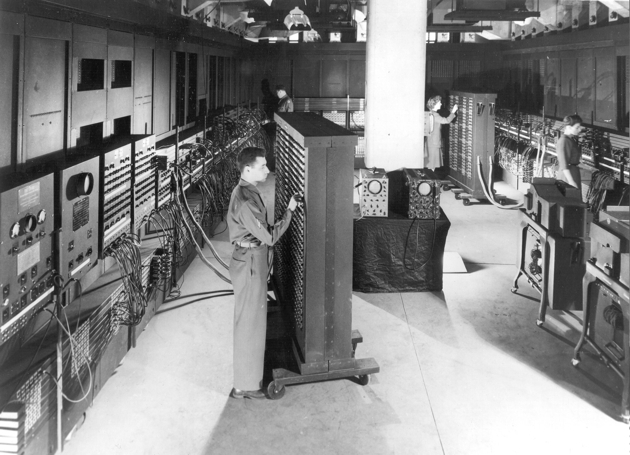 Cpl. Irwin Goldstein (foreground) sets the switches on one of the ENIAC's function tables at the Moore School of Electrical Engineering. (U.S. Army photo) [1] PD image of ENIAC "U.S. Army Photo", from 8x10 transparency, courtesy Harold Breaux. The classic shot of the ENIAC while still at the Moore School. Soldier at foreground function table: CPL Irwin Goldstine. Copyright info at [1] Of note, this is PD, provided the phrase "U. S. Army Photo" is along with the photo. Use the photo wherever, but PLEASE include this info.